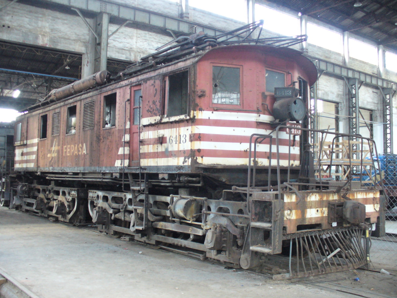 Electric locomotive No. 6413 of the Fepasa Railroad, built by Baldwin and Westinghouse in the U.S., between 1927 e 1928, especially for transport of cargo by Paulista Railroad (original number #218). Today is part of the Museum of Jundiai-SP.